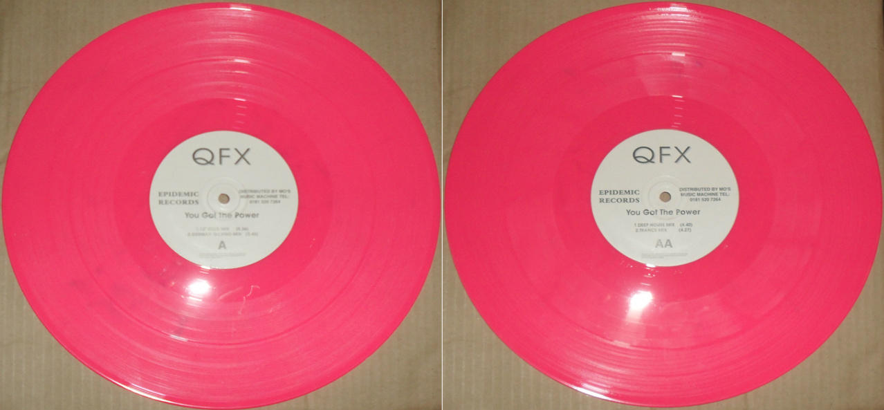 QFX - You Got The Power - 1996 Epidemic Records / EPIT007 pink vinyl